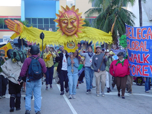 A march during protests against the Free Trade Area of the Americas in Miami, 2003